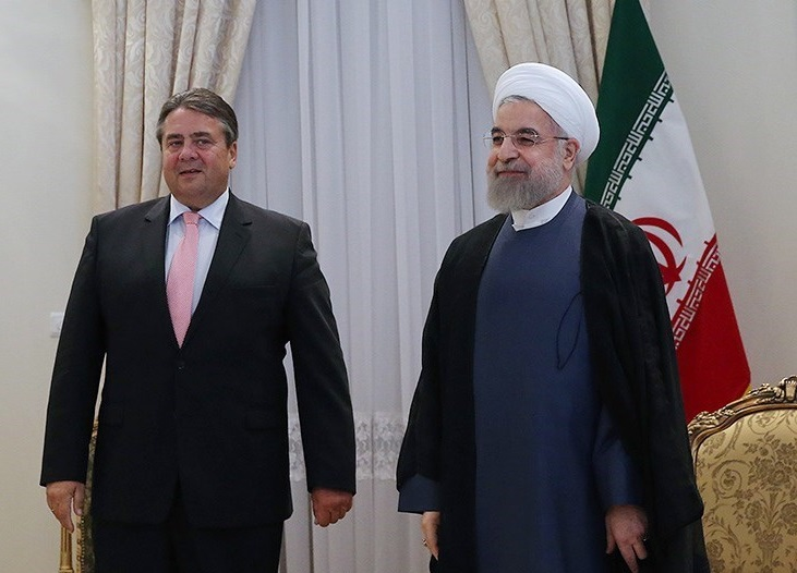 Iranian President Hassan Rouhani meeting with German Economic Affairs and Vice Chancellor Sigmar Gabriel in Tehran's Saadabad Palace